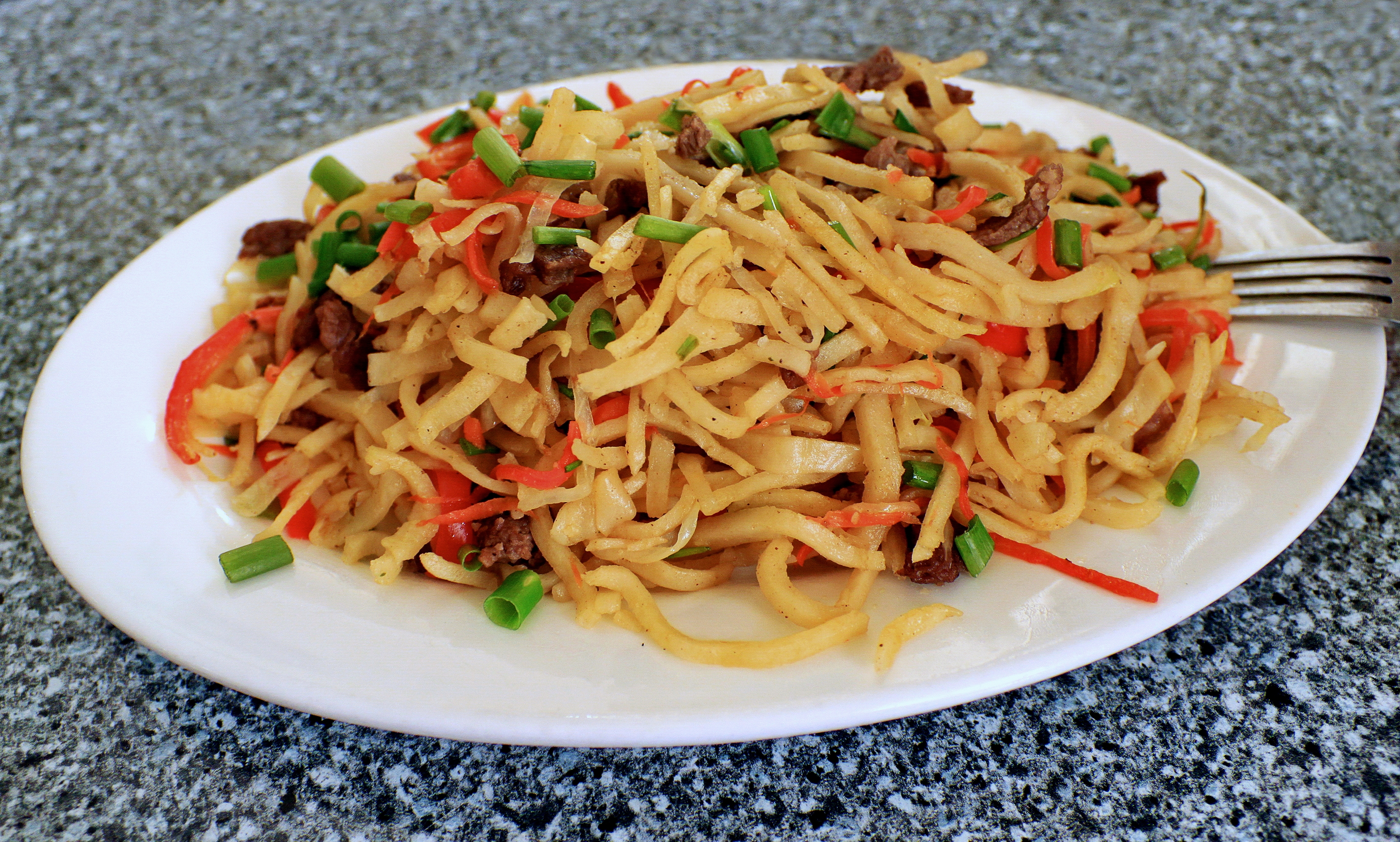 Tsuivan - Mongolian traditional food: noodle with beef and vegetables .